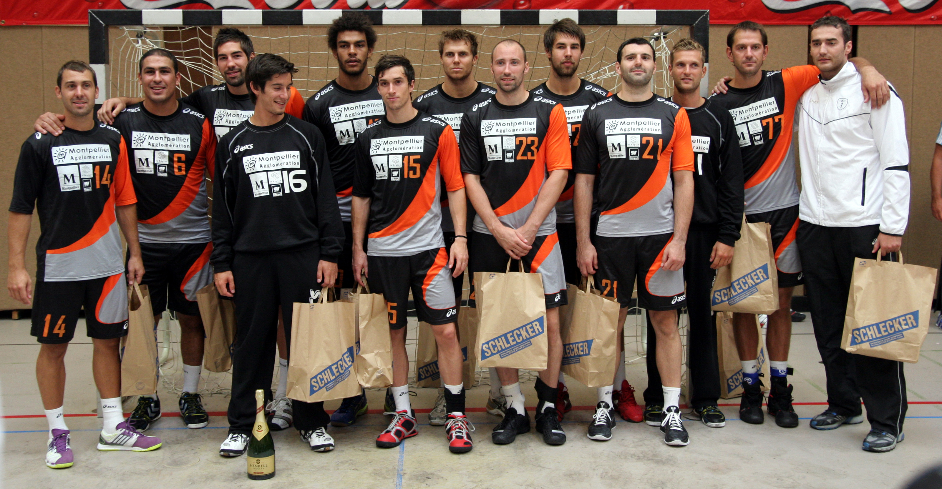 The team from Montpellier HB, on August 15th, 2010 in Ehingen (Germany).